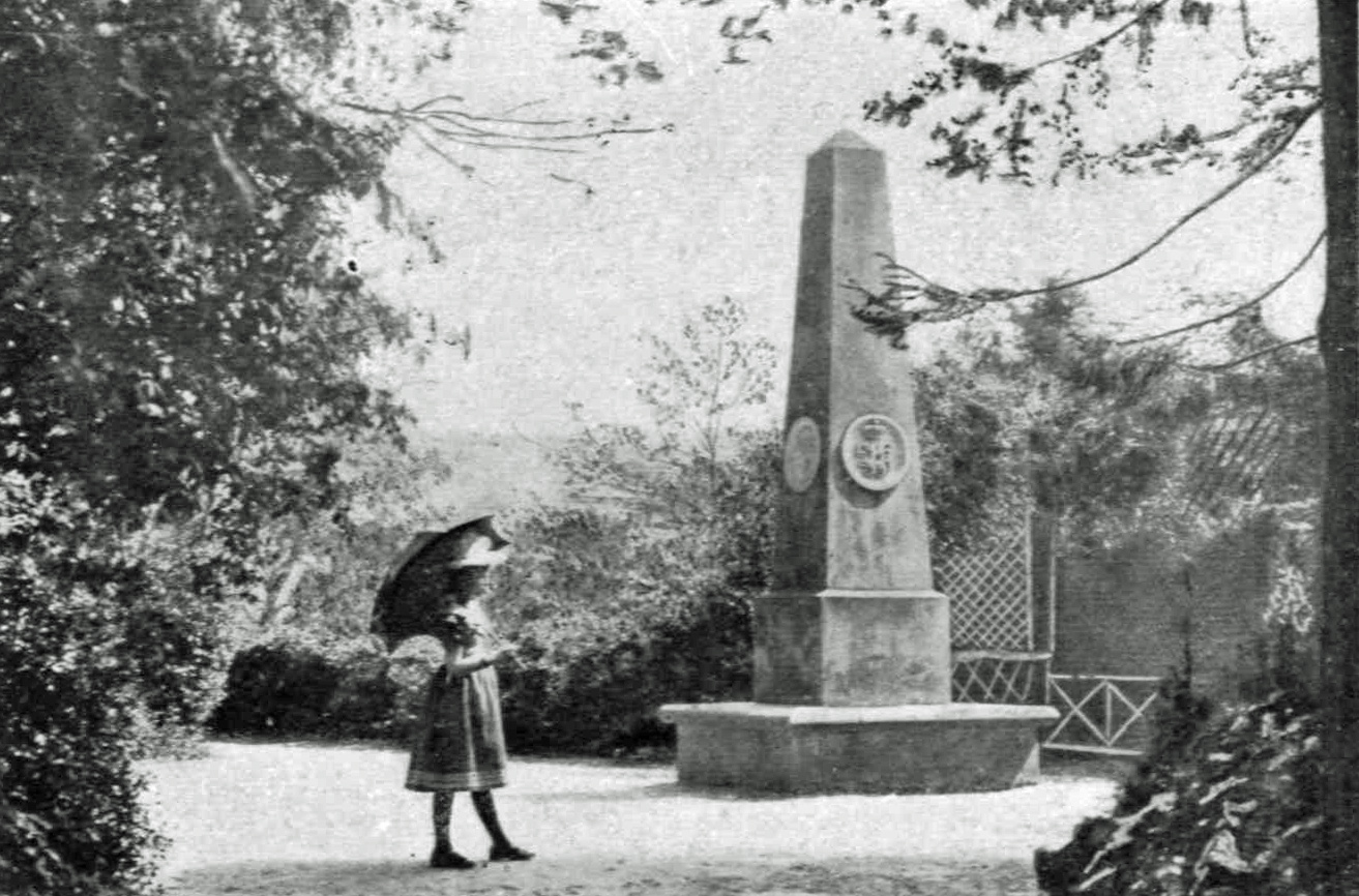 Memorial for Wilhelm I. and Augusta in Koblenz